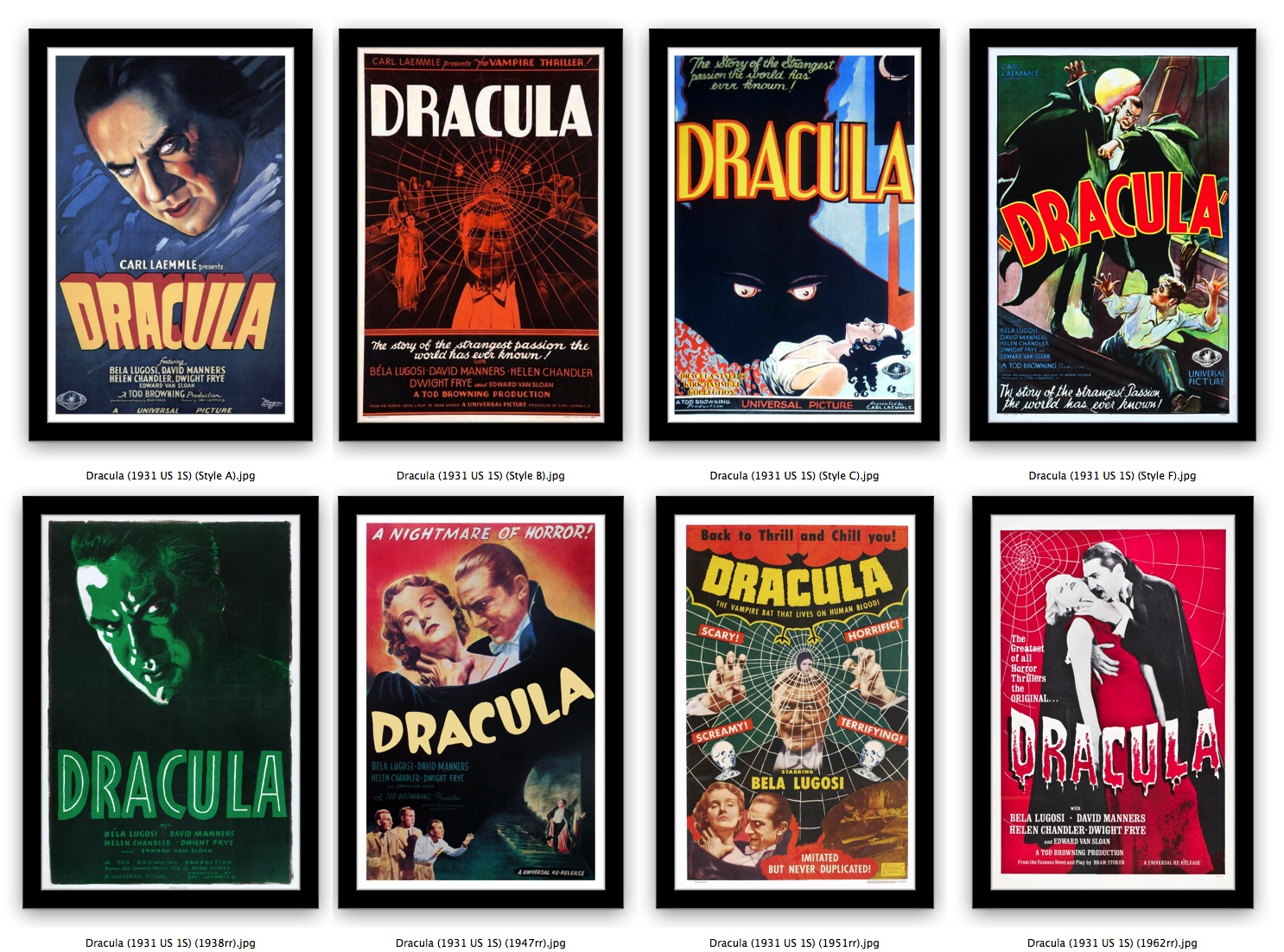 Images of all known one sheet movie posters